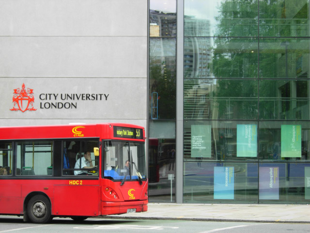 City University The driver of the 153 bus on its way from Liverpool Street to Finsbury Park looks bored as he waits for the lights to change outside the City University's Social Science Building.